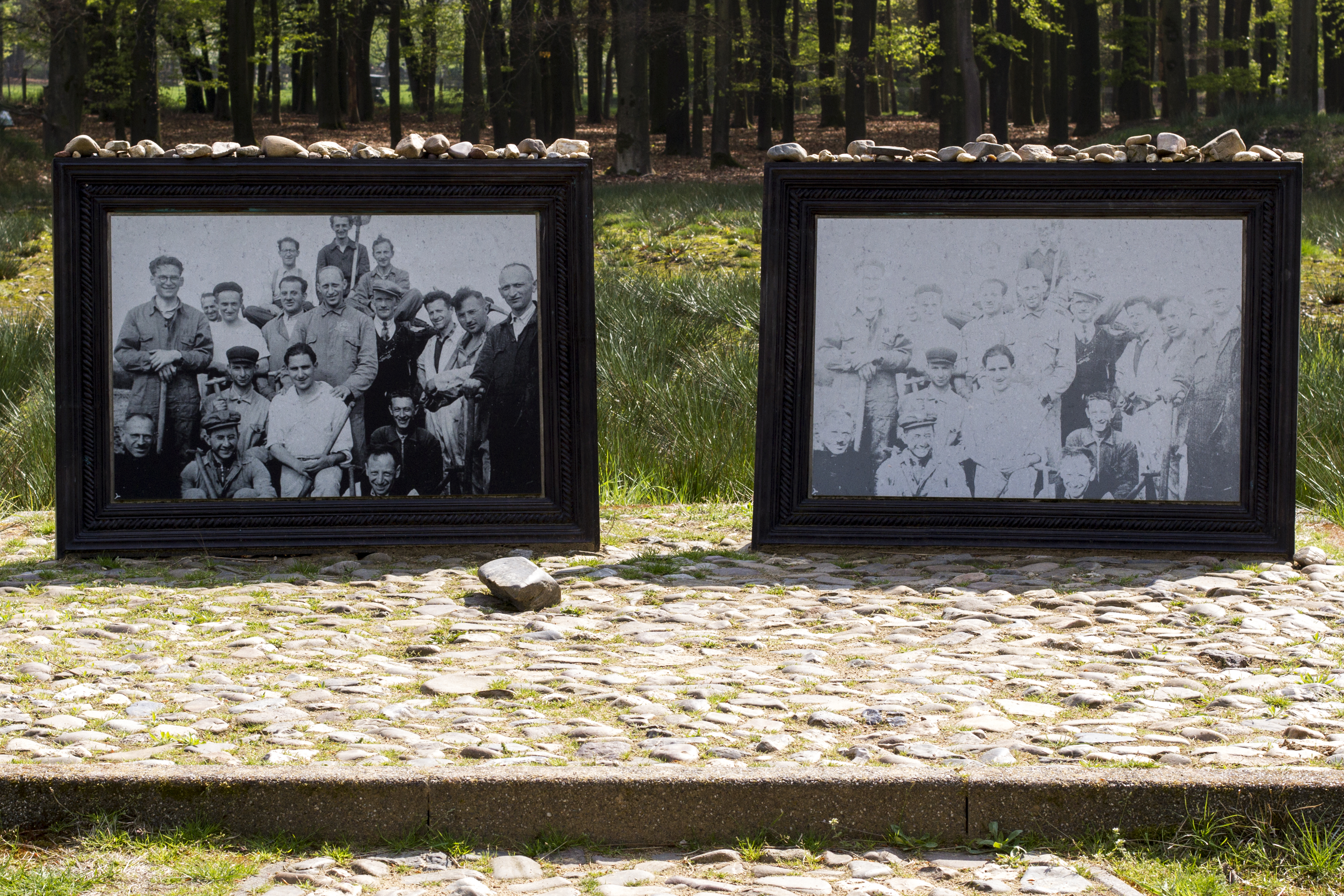 Monument commemorating the Jewish citizens who were put to work in camp Twilhaar near Haarle.